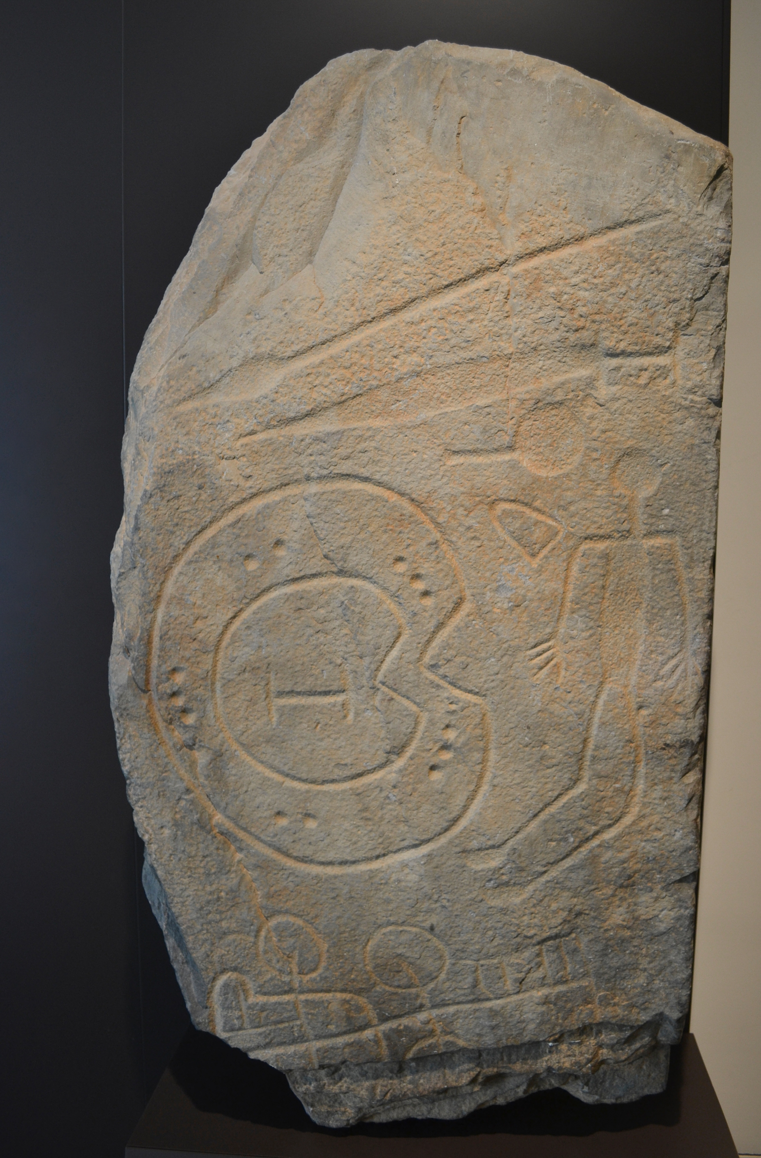 Warrior stela. Slate. Late Bronze Age. Found in Solana de Cabañas (Cabañas del Castillo, Cáceres). Found in the late 19th century, this was the first specimen to be discovered in a serie of stelae now numbering over one hundred monuments. The figure is surrounded by the symbols of his social rank, including a Mediterranean-style chariot in wich the engraver nevertheless made the mistake of placing de wheels on the axis, thus demonstrating that he had never actually seen the object he mas representing. Inv. number 1898/1/1. National Archaeological Museum of Spain.